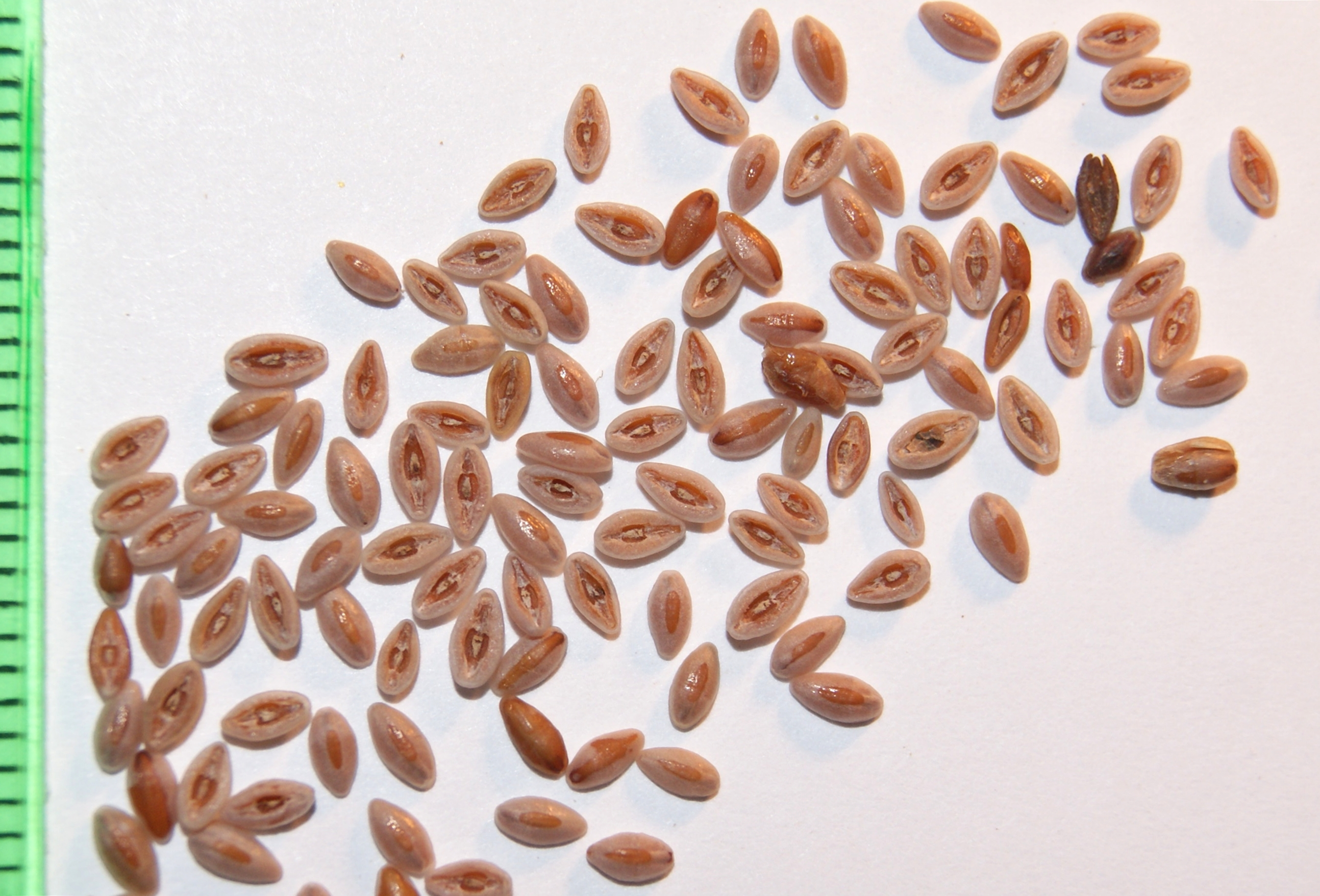 Plantago ovata